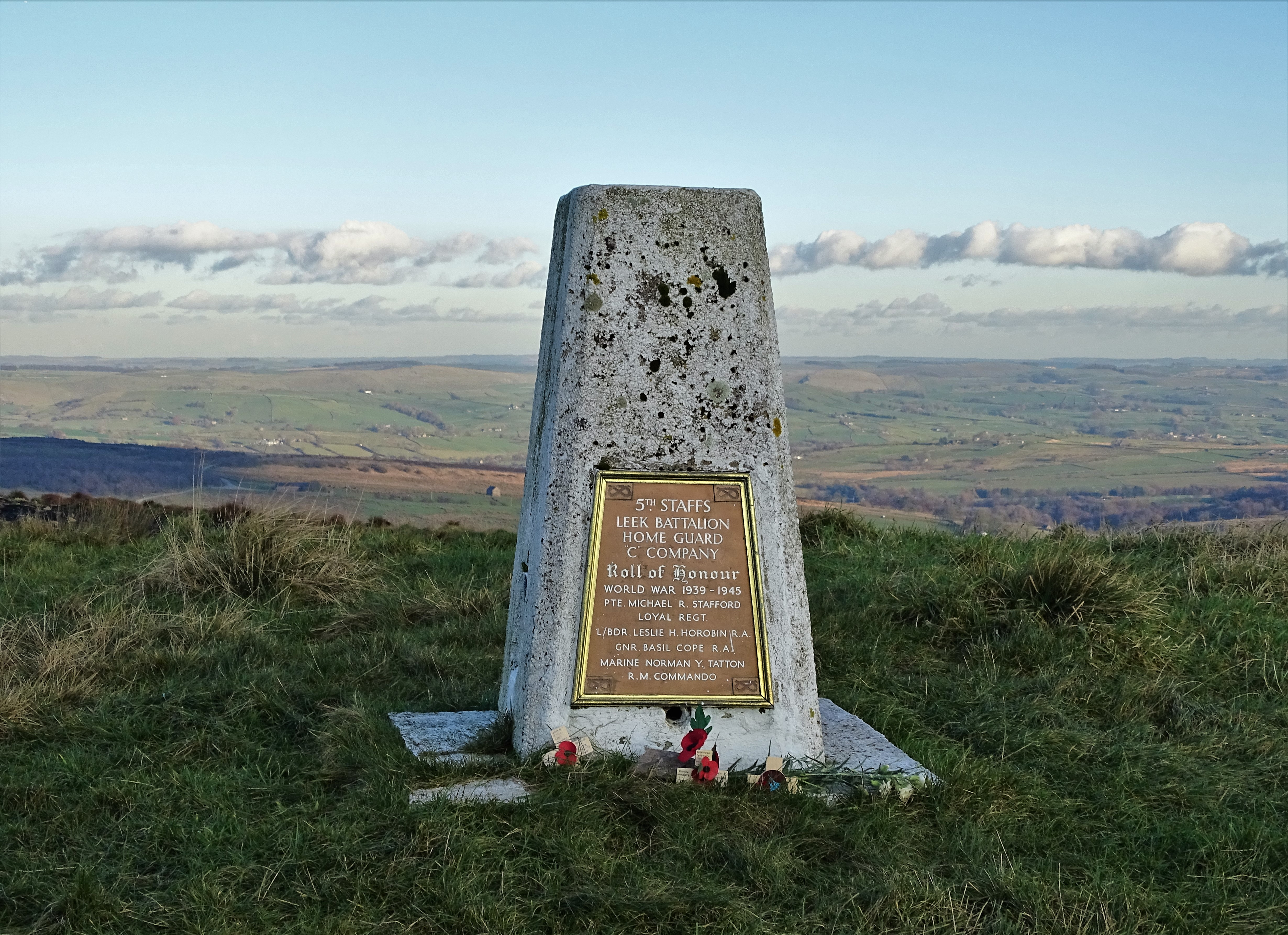 The Triangulation Pillar on Merryton Low, Fawfieldhead, Staffordshire, England